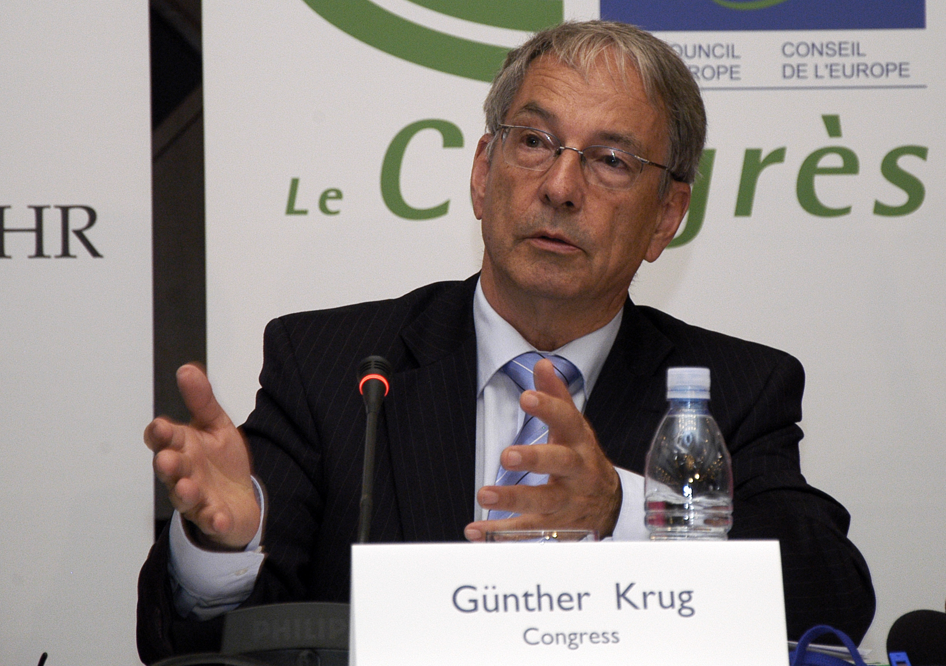 Günther Krug (Germany, SOC), Congress Vice-President of the Chamber of Regions addressing the joint press conference in Tbilisi (Georiga) on 31 May 2010.